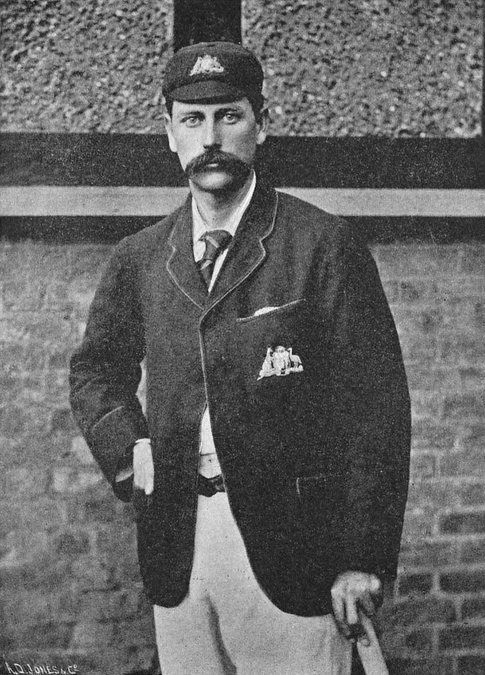 Scan of cricketer Harry Donnan